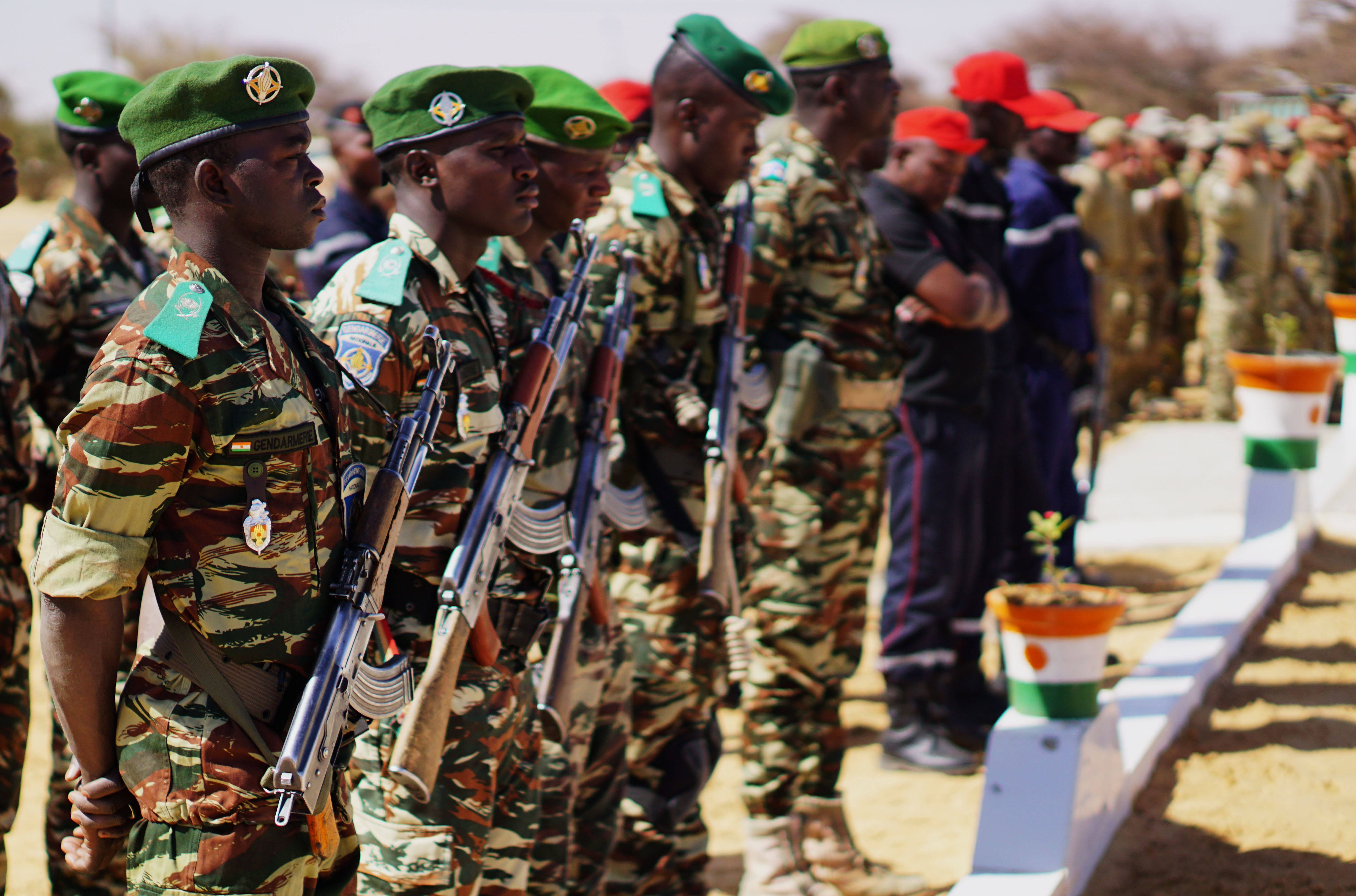 Nigerien armed forces participate in the opening ceremonies of Flintlock 2017 in Diffa, Niger, Feb. 27, 2017. Flintlock is a multinational Special Operations Forces exercise geared toward building interoperability among African and western nations. (U.S. Army photo by Spc. Zayid Ballesteros) Unit: 3rd Special Forces Group (Airborne) DVIDS Tags: Canada; United States; Australia; Belgium; 3rd Special Forces Group; SOCAfrica; Niger; SOCAF; Special Operations Command Africa; Diffa; Flintlock 2017; SOCFWD-NWA